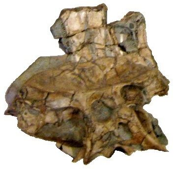 Partial pelvis and accompanying sacral vertebrae of specimen MN 4819-V, referred to a spinosaurine from the Romualdo Formation of Brazil.